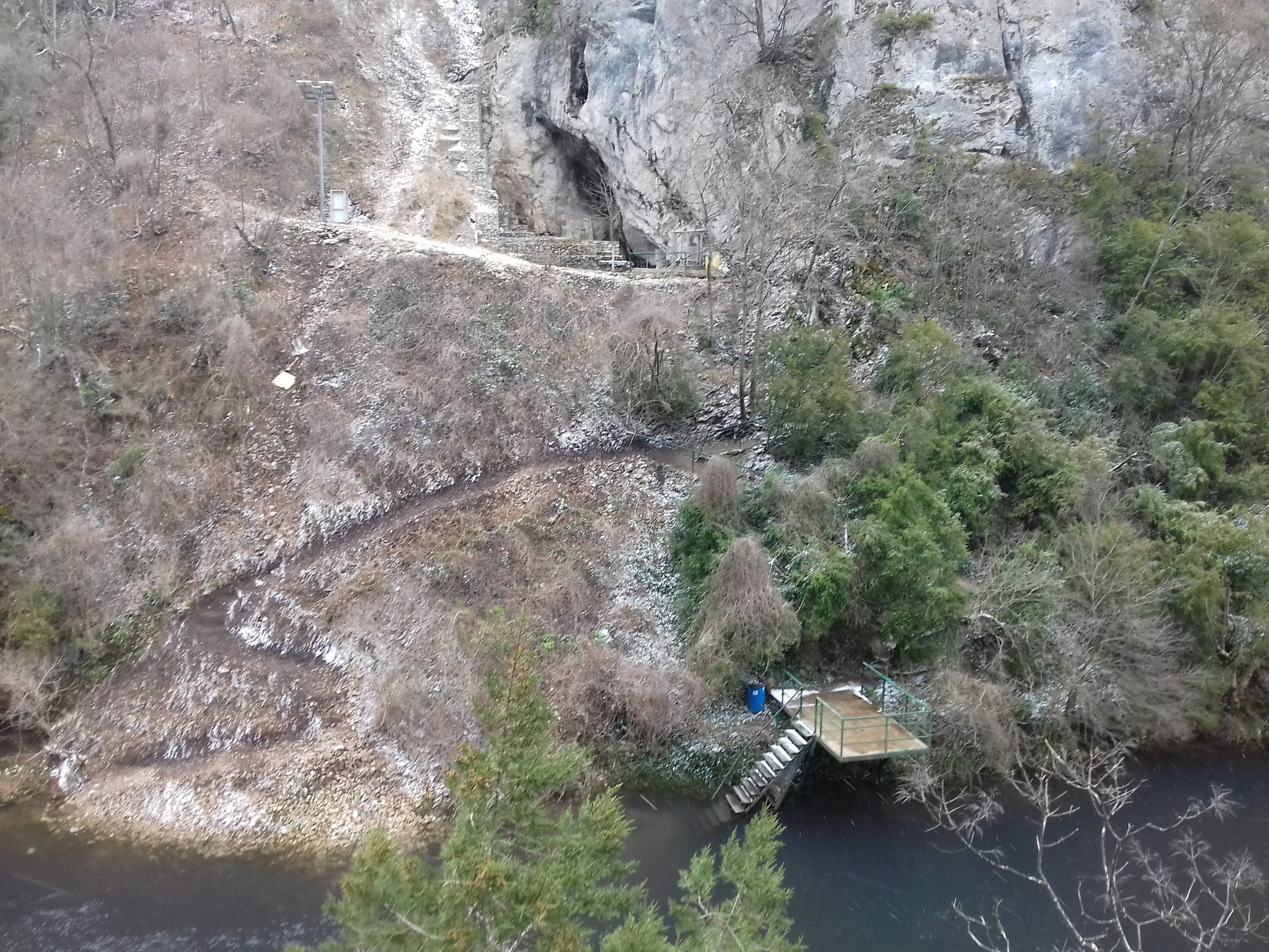 Vrelo cave in Matka canyon, Macedonia